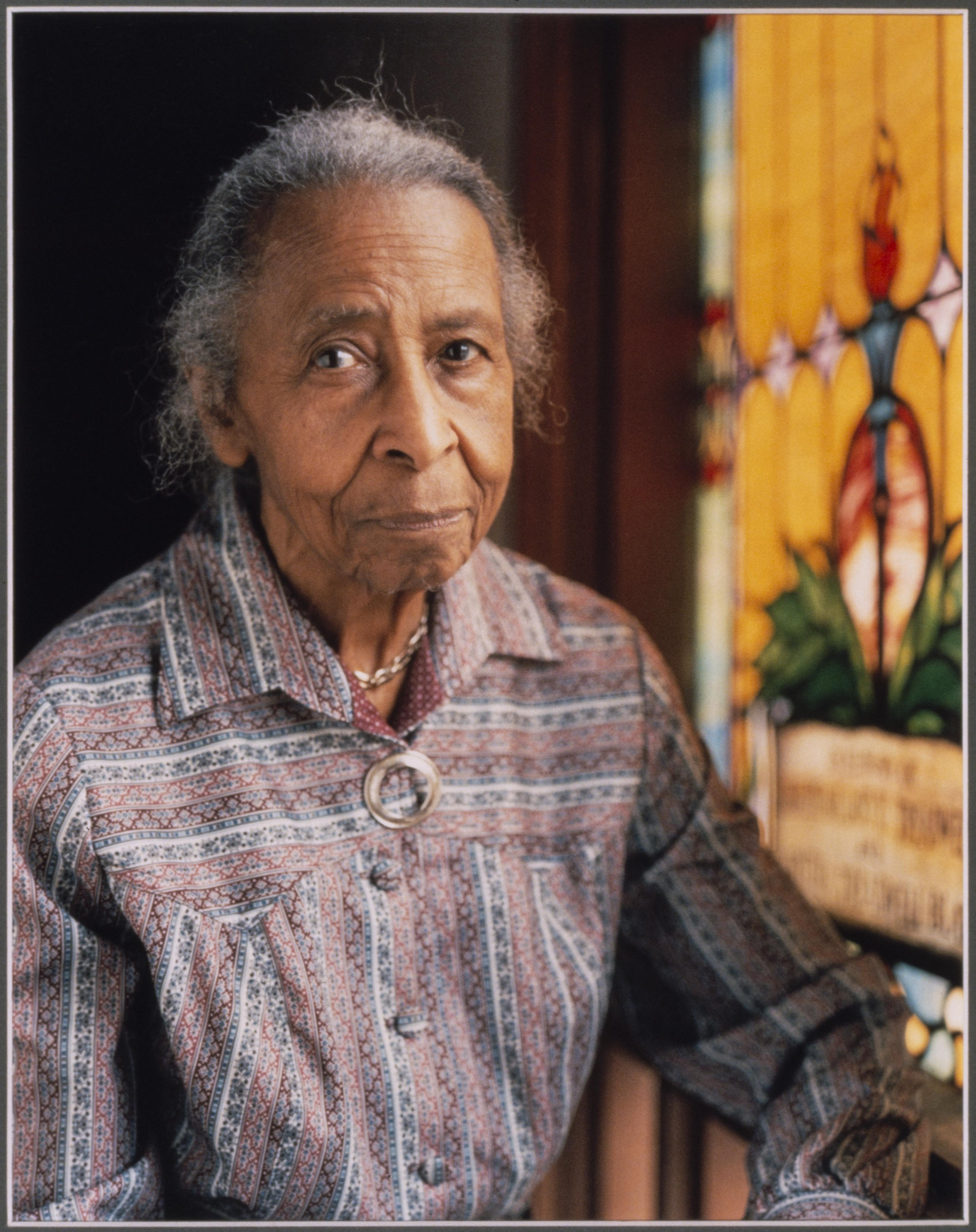 Biography: As nurse and public health administrator, Florence Edmonds served her community for more than 50 years, both professionally and in a volunteer capacity. Born, raised, and educated in Pittsfield, Mass., Mrs. Edmonds was refused nurses' training at the local hospital. In 1917 she enrolled in a three-year course at Lincoln Hospital and Home Training School for Nurses in New York City. Upon its completion, she was awarded a one-year scholarship to Teachers' College at Columbia University to study hospital social service. She then worked at the Henry Street Settlement, a visiting nurses service. She married William Bailey Edmonds in 1922, and returned with him to her hometown of Pittsfield, where they raised their four children. During World War II, she taught Red Cross home nursing classes, and in 1945, she joined the Pittsfield Visiting Nurse Association where she remained for 11 years. She served as secretary to District One of the Massachusetts State Nurses Association, and was health coordinator and part-time instructor in home nursing at Pittsfield General Hospital from 1956 until 1968 when the affiliated nursing school closed. An active church member and volunteer in community activities, Mrs. Edmonds was named "Mother of the Year" in 1962 by the townspeople of Pittsfield. Description: The Black Women Oral History Project interviewed 72 African American women between 1976 and 1981. With support from the Schlesinger Library, the project recorded a cross section of women who had made significant contributions to American society during the first half of the 20th century. Photograph taken by Judith Sedwick Repository: Schlesinger Library on the History of Women in America. Collection: Black Women Oral History Project Research Guide: Questions?